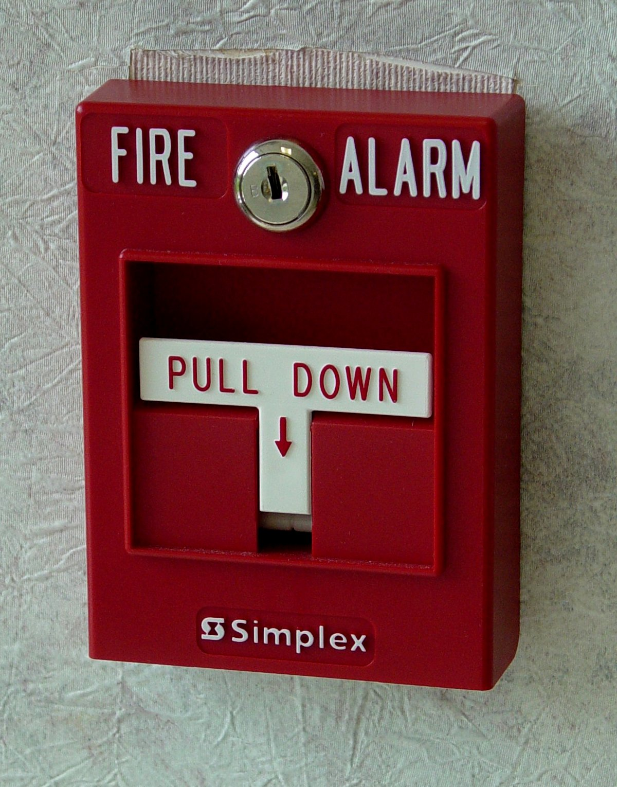 A Simplex pull station in Taylor Hall at James Madison University.